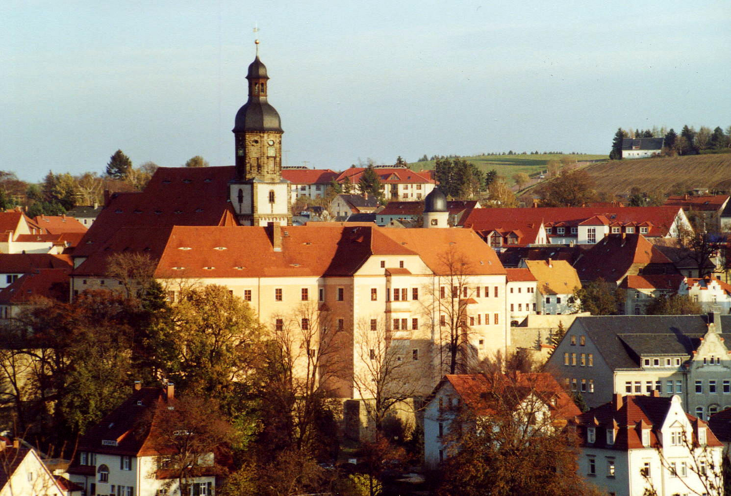 This image shows the castle and the church in Dippoldiswalde in Saxony, Germany.